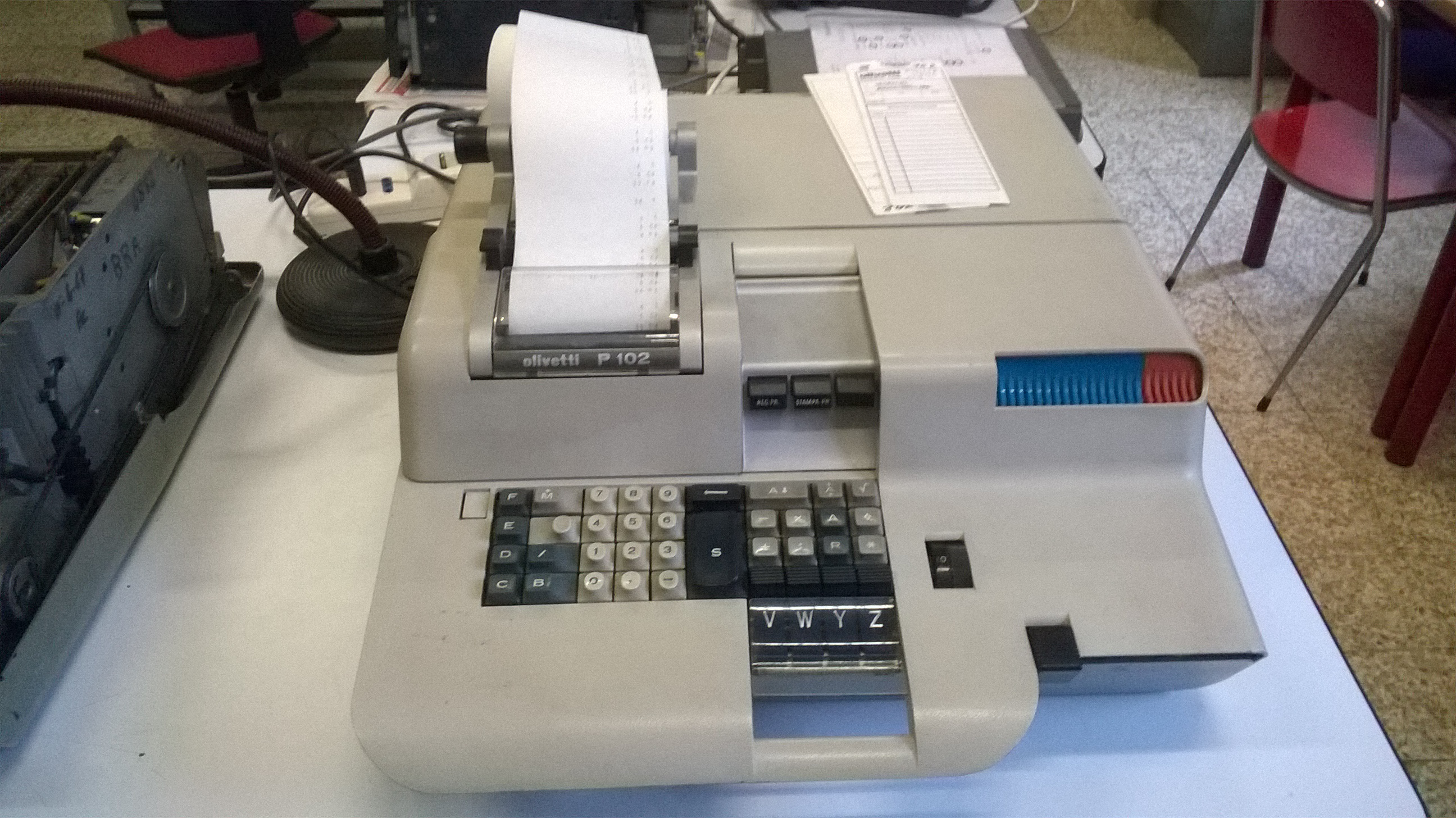 Olivetti P102 PC